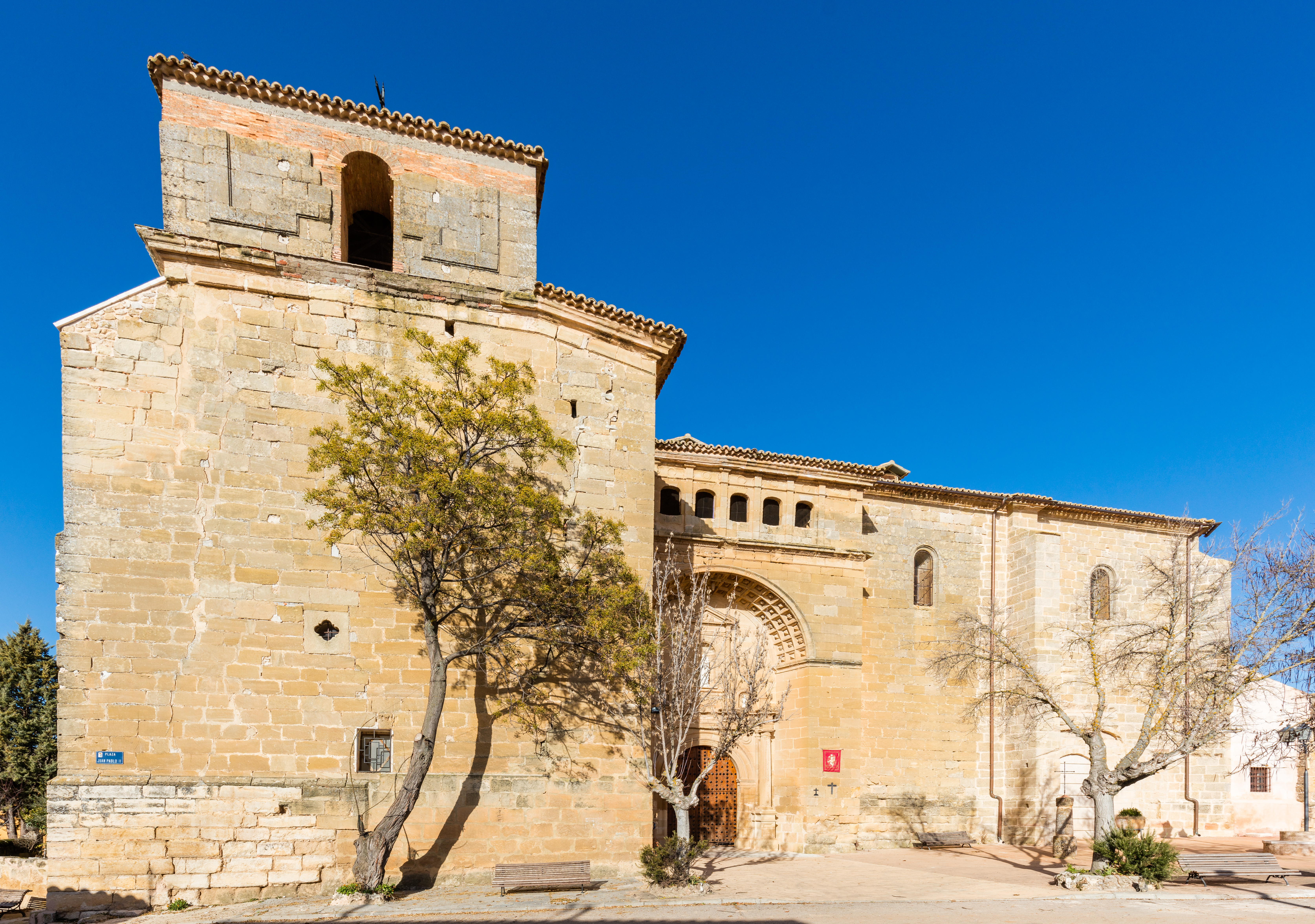 Church of Our Lady of Sagrario, Garcinarro, El Valle de Altomira, Cuenca, Spain